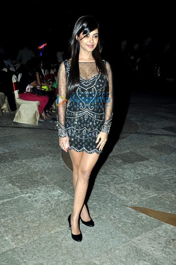 Meera Chopra at Gang of Ghost Audio Launch